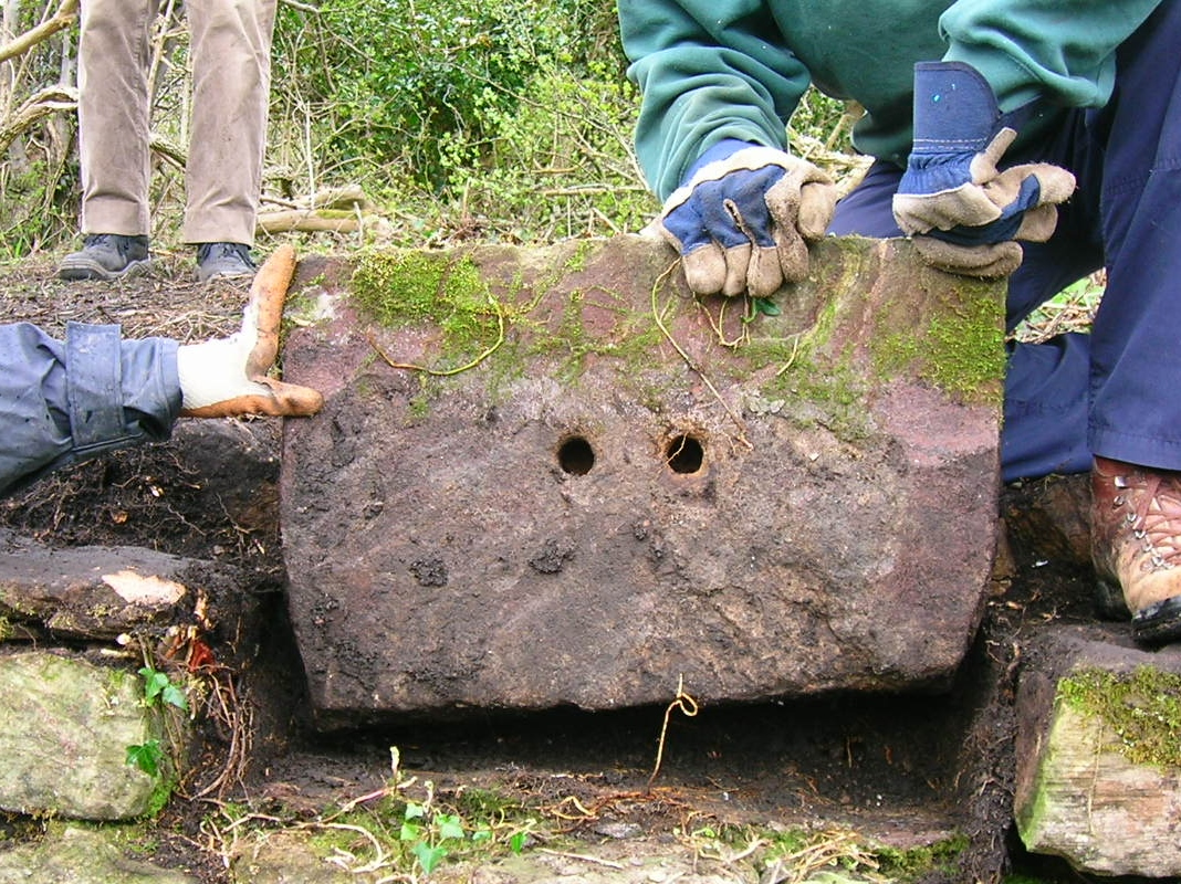 Detail of recycled stone railway sleeper blocks, the Hurry, Millburn, near Benslie, North Ayrshire, Scotland.